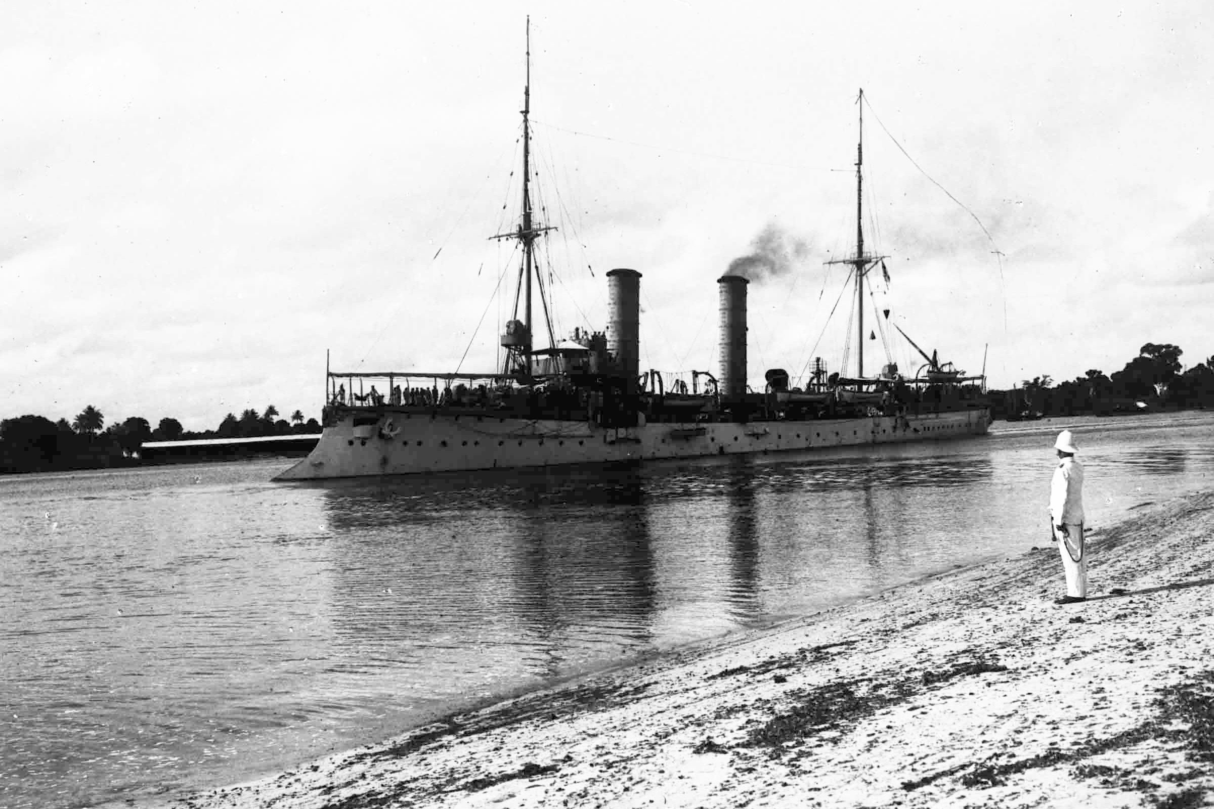 Small Cruiser SMS Thetis in the Harbour of Dar es Salaam, German East Africa.